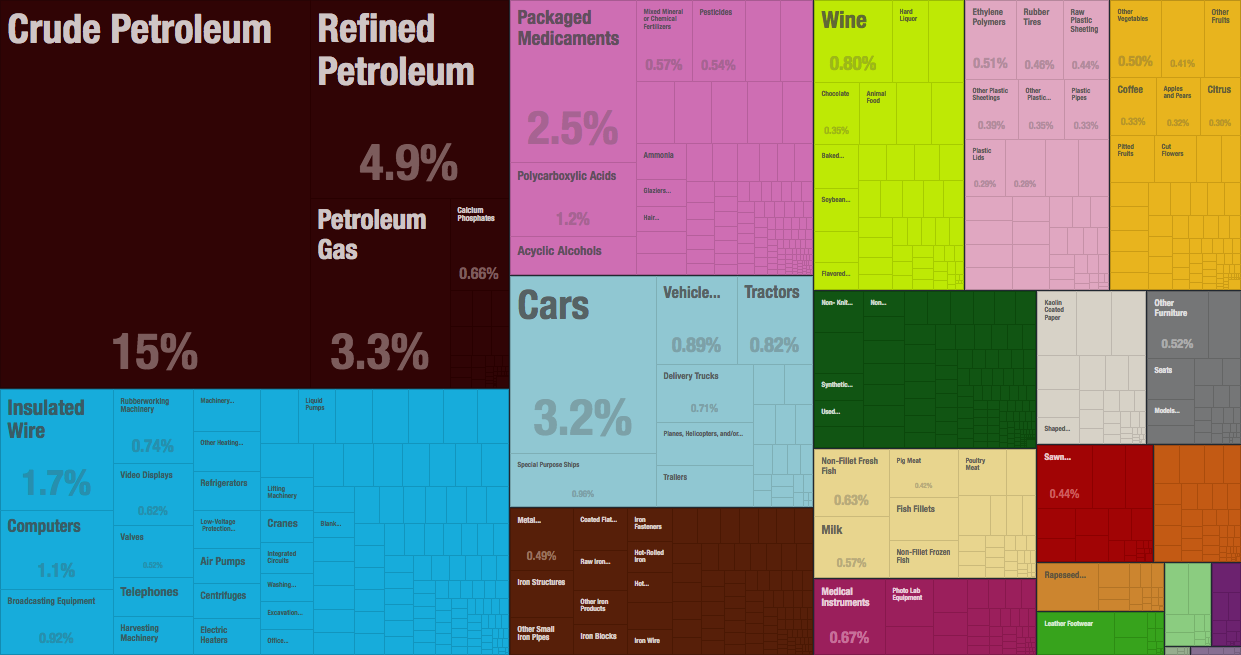 Lithuania Import Treemap 2014